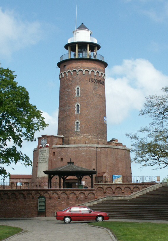 A lighthouse in Kołobrzeg, Poland.